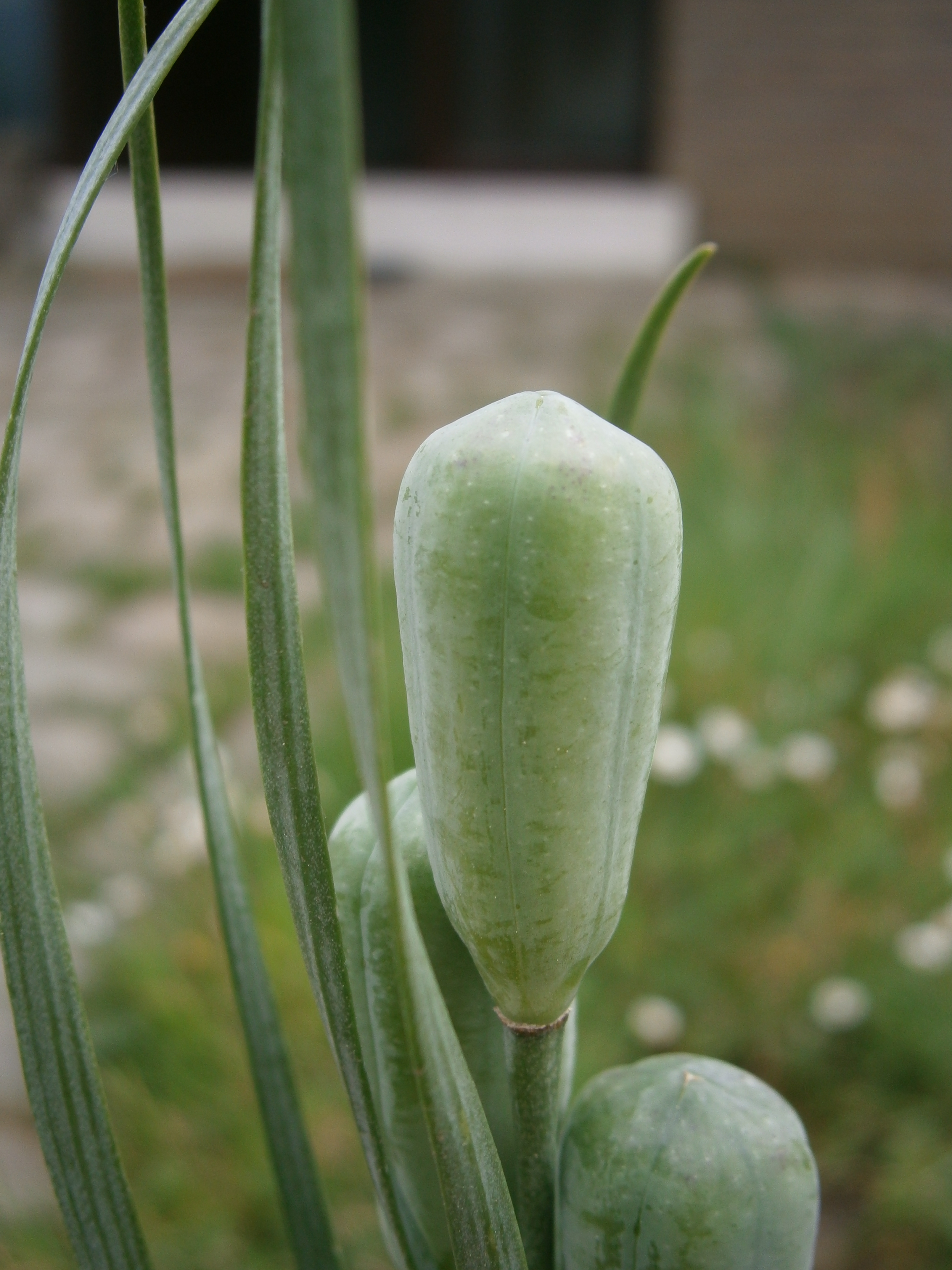 Fritillaria nigra seed-box